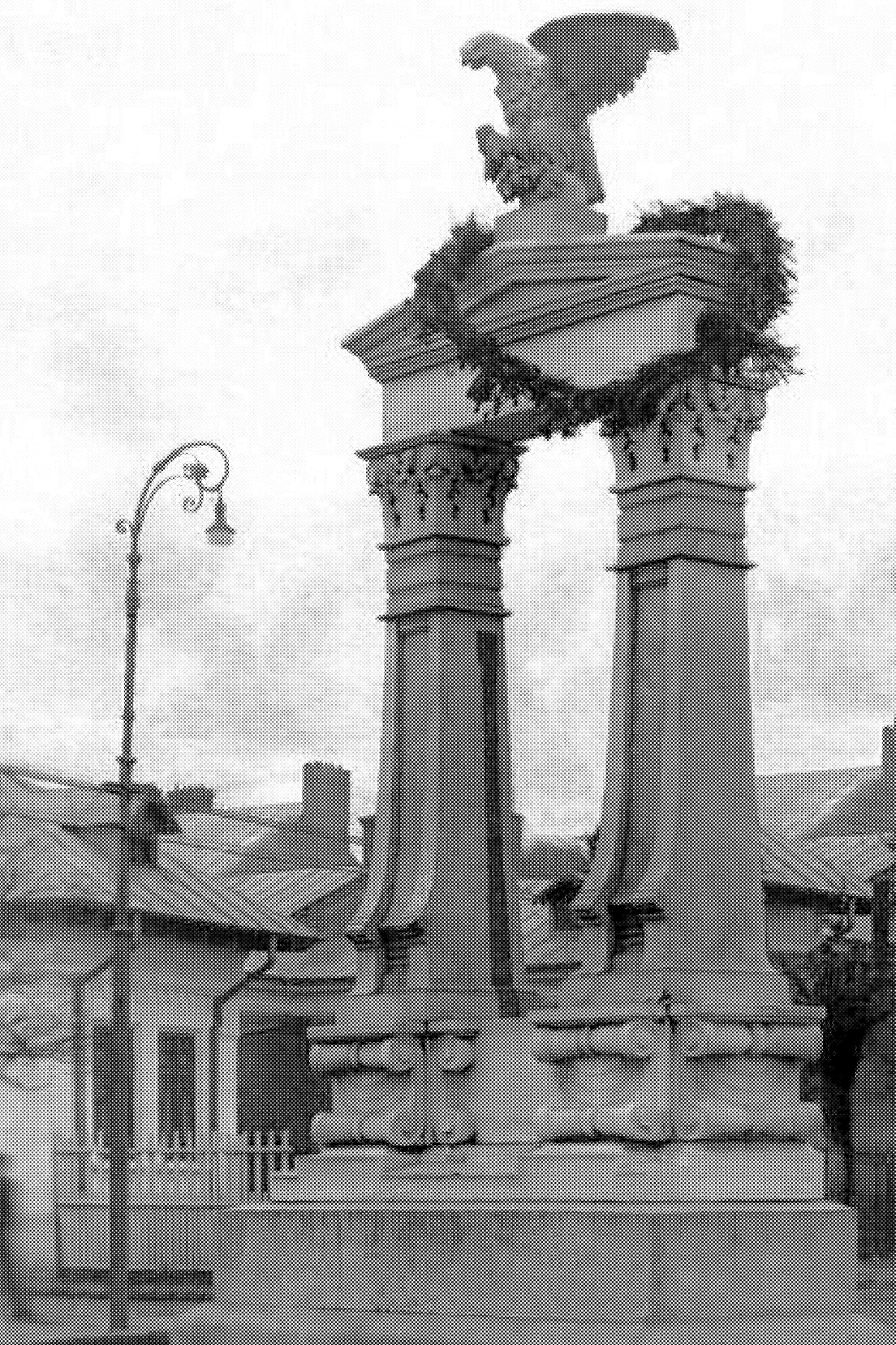 Monument to the heroes of the Battle of Galați in 1918 in Galați, Romania c. 1921